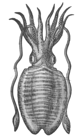 Cuttlefish